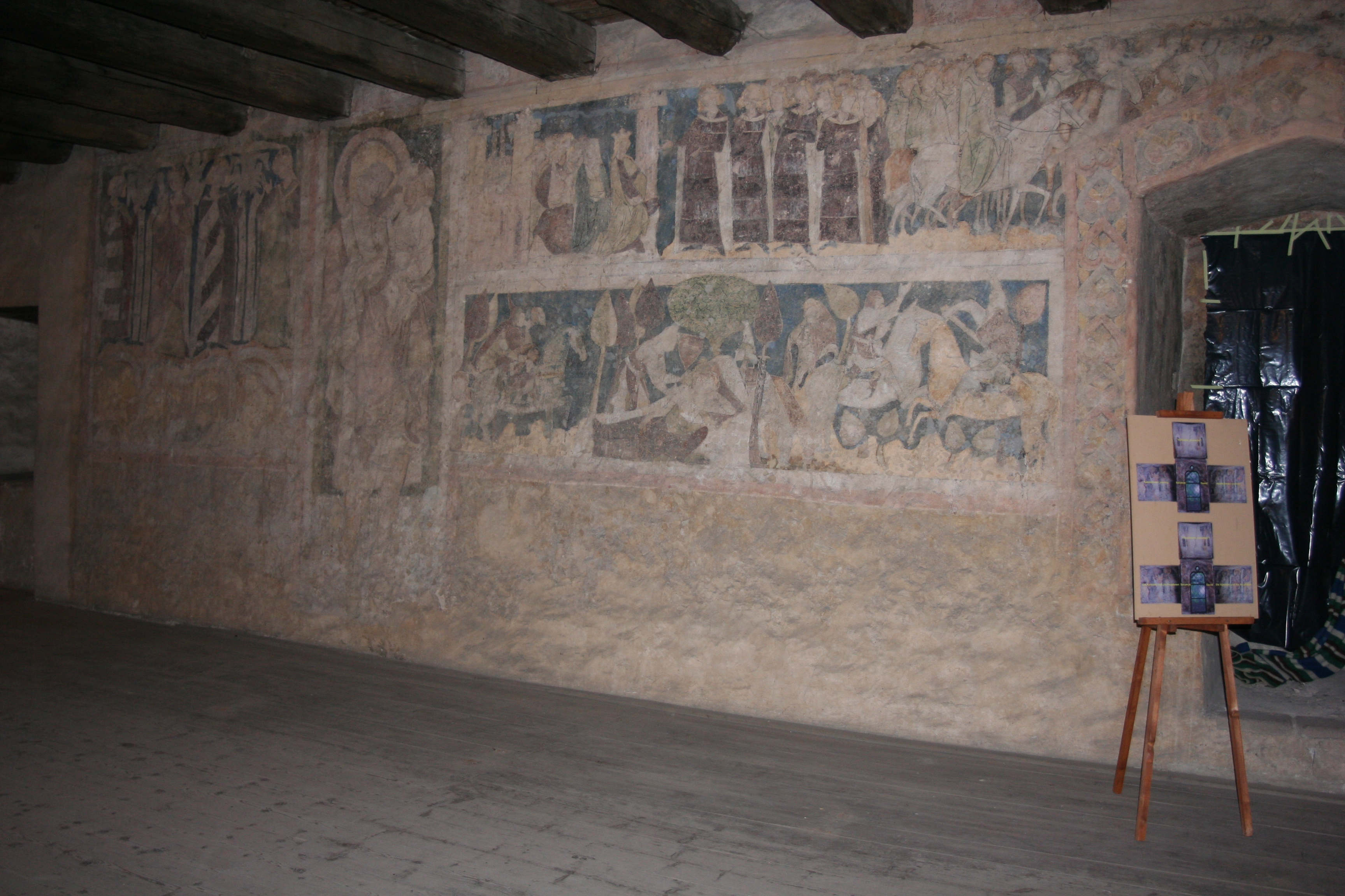 Inside medieval tower from 14th century (2nd floor), Siedlęcin near Jelenia Góra, Lower Silesia, Poland.